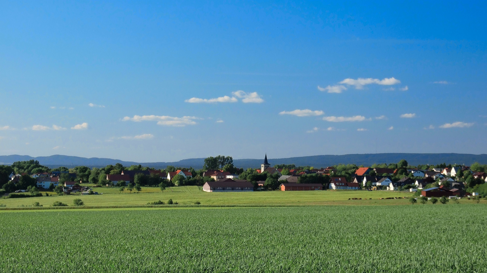 Benhausen